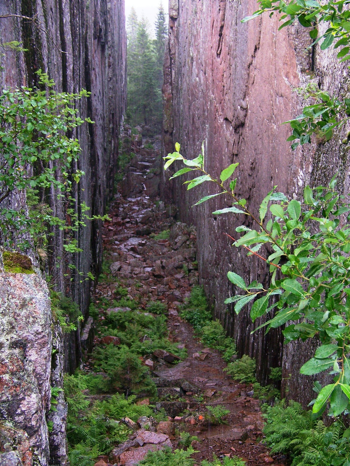 Most remarkable geographical formation in Skuleskogen National Park - gorge Slatterdalsskrevan